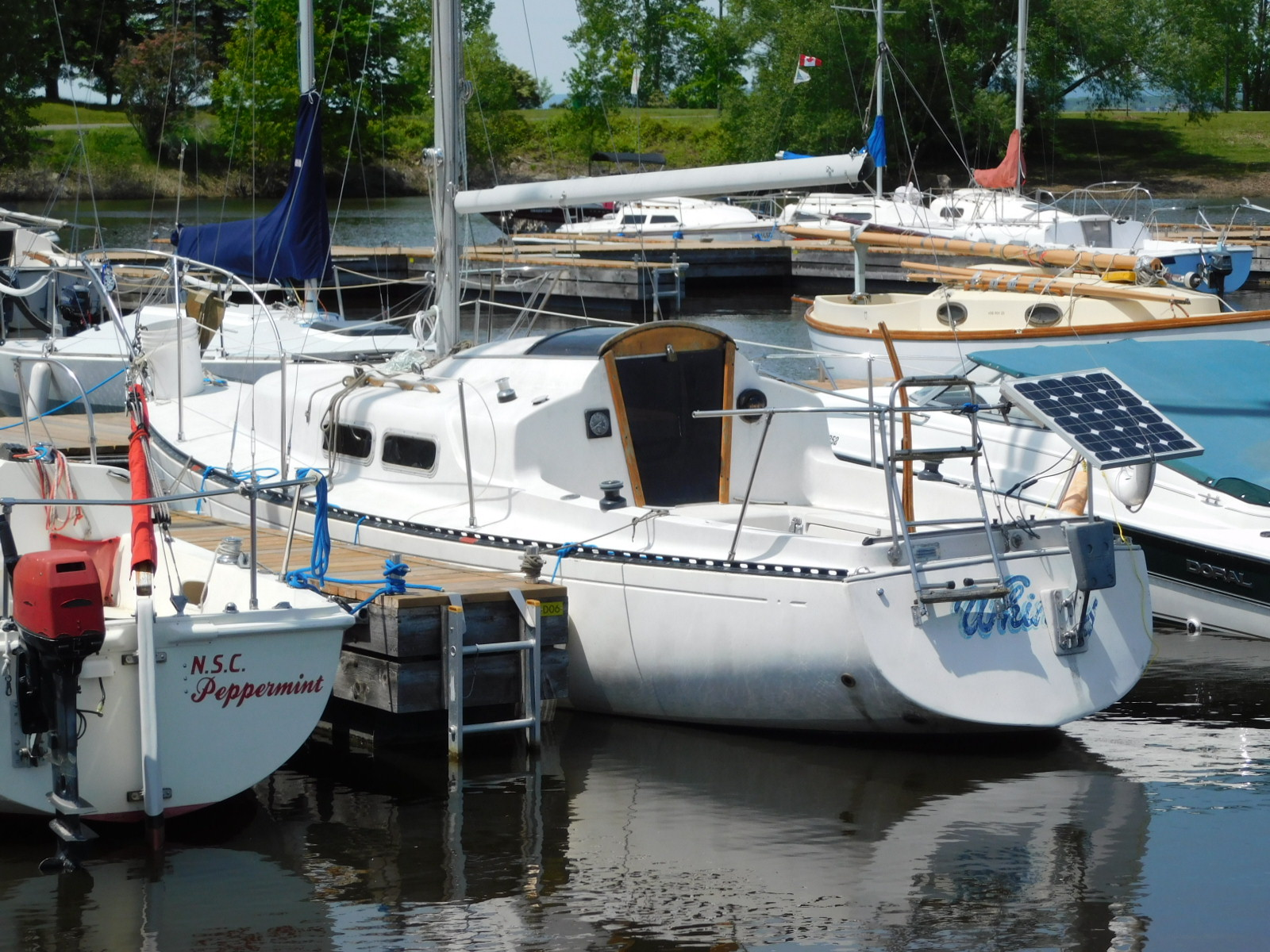 A Northern 25 sailboat named Whimsy.